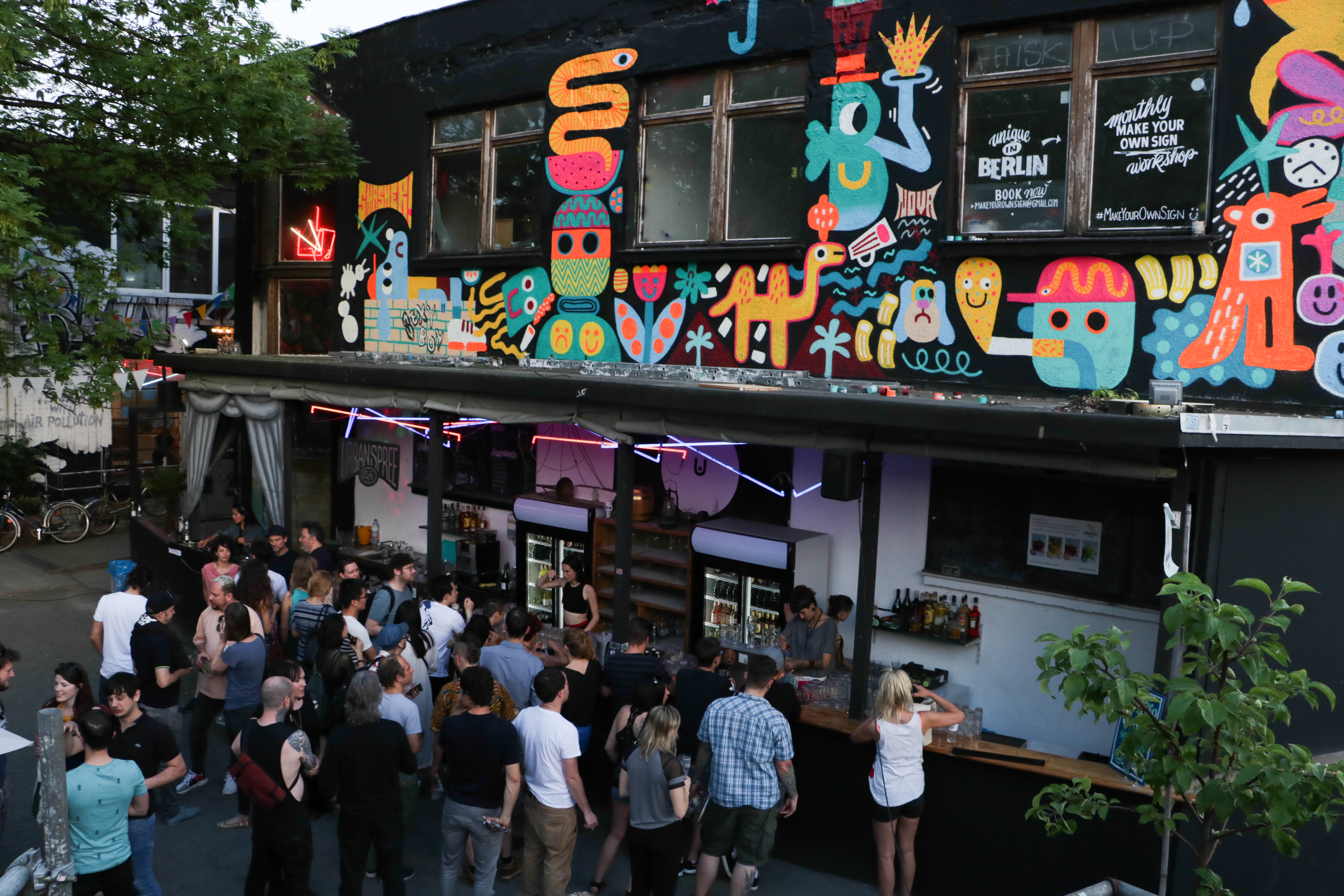 Urban Spree beergarden